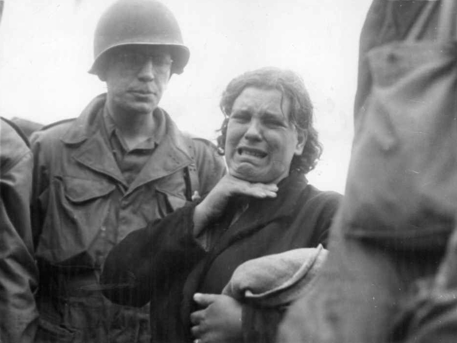 A polish woman weeps as she tells troops of the Third Division, Seventh US Army, of her life as a slave laborer for the Nazis. She was liberated in Augsburg when the second largest Bavarian city fell to the americans April 23, 1945. OWI Staff Photo by Richard Boyer.